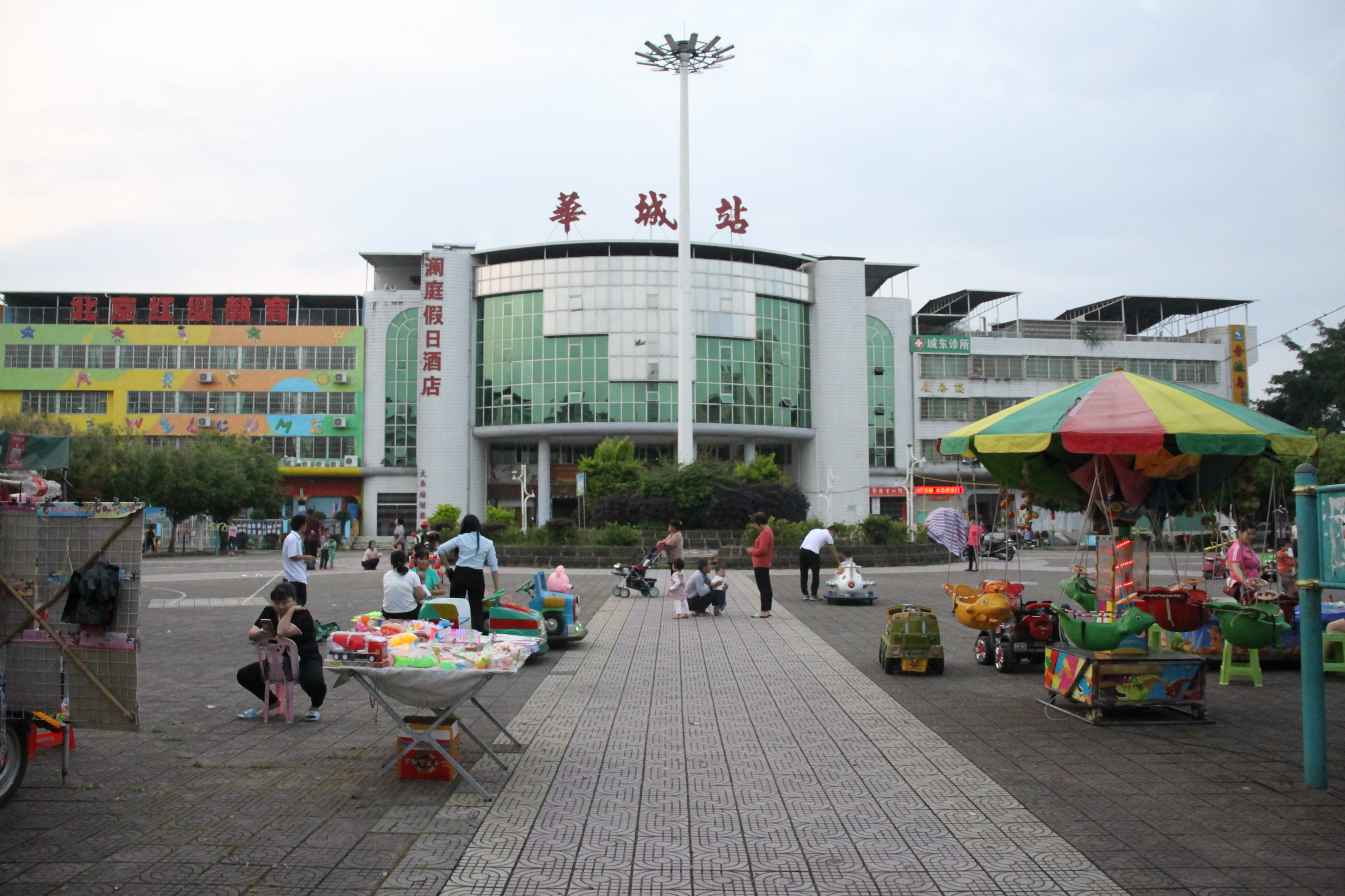 Front side of Huacheng railway station, in Meizhou, Guangdong, PRC